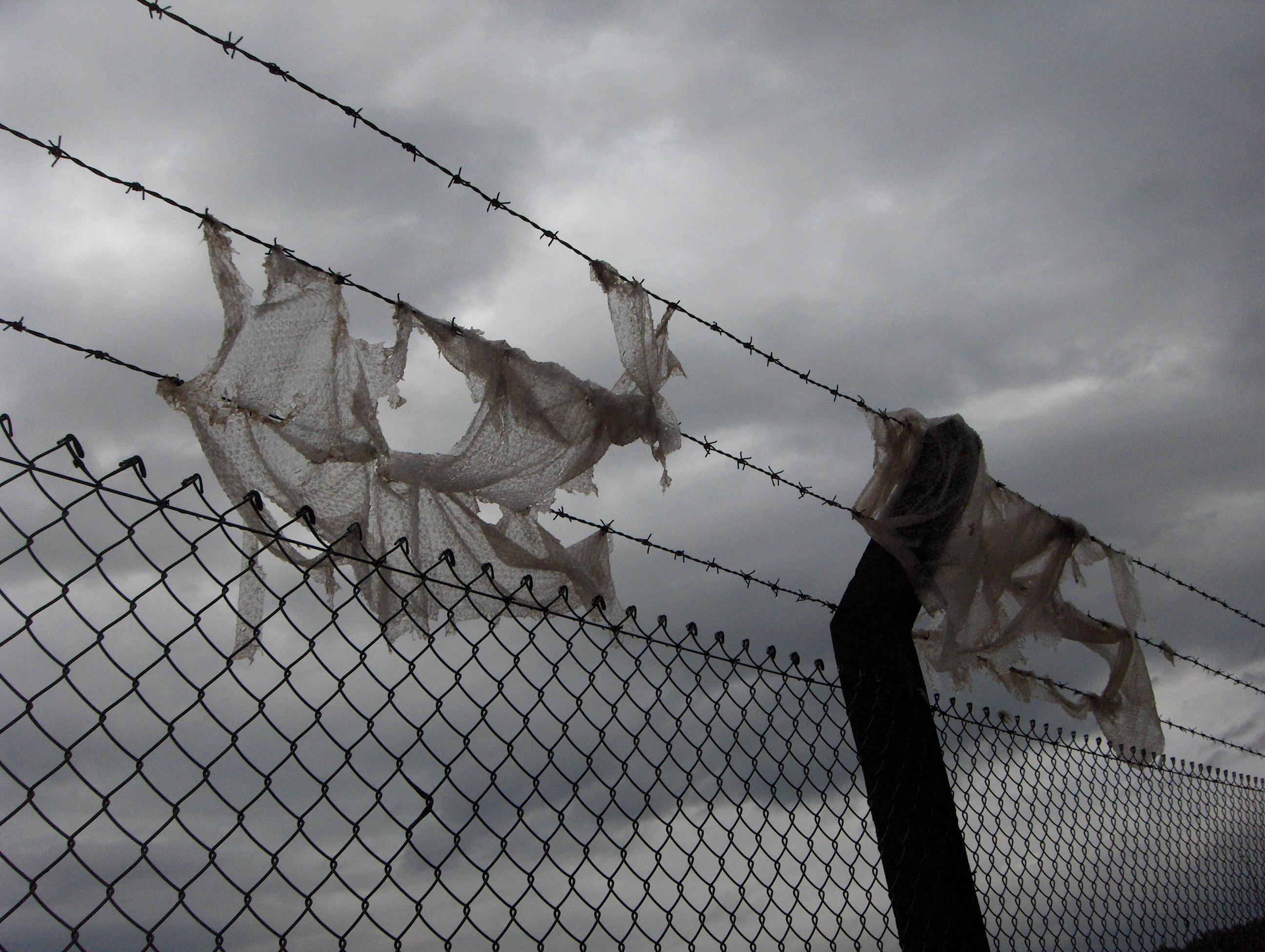 Barbed wire on the top of a wire netting fence in Glasgow (Scotland).